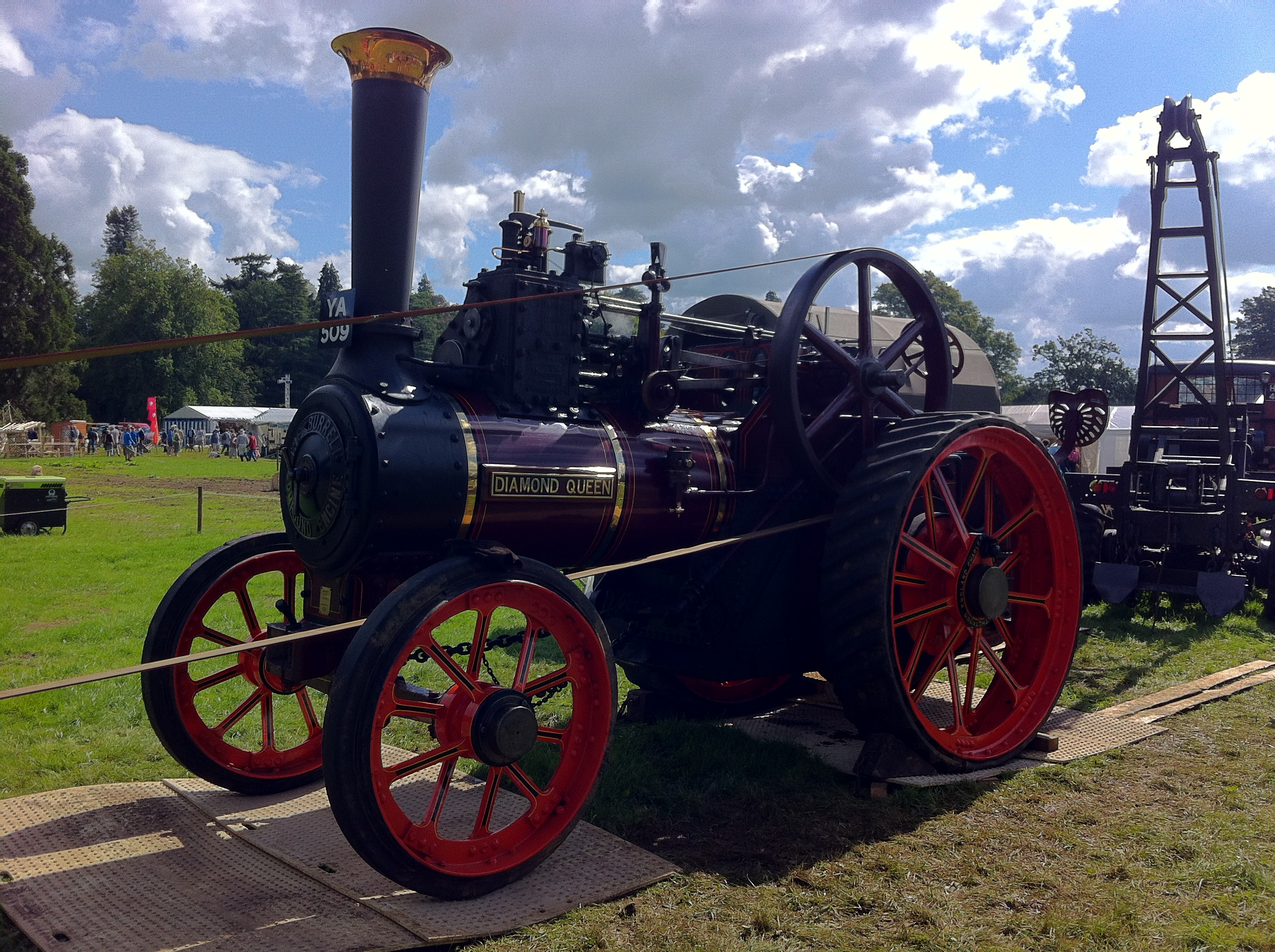 Diamond Queen traction engine; 1897 Burrell General Purpose engine no. 2003, registration no. YA 509